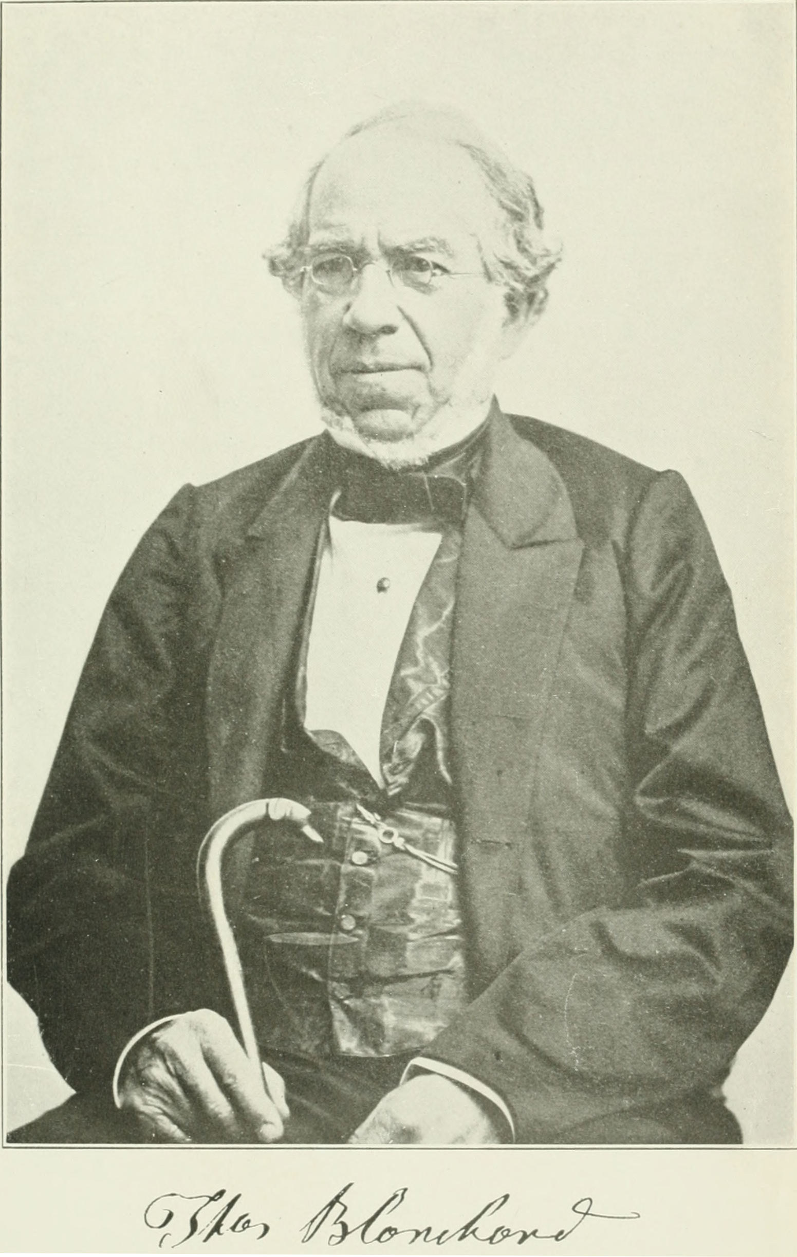 Thomas Blanchard, American inventor. Below the image it says: "From a portrait in the possession of F. S. Blanchard, Worcester, Mass."